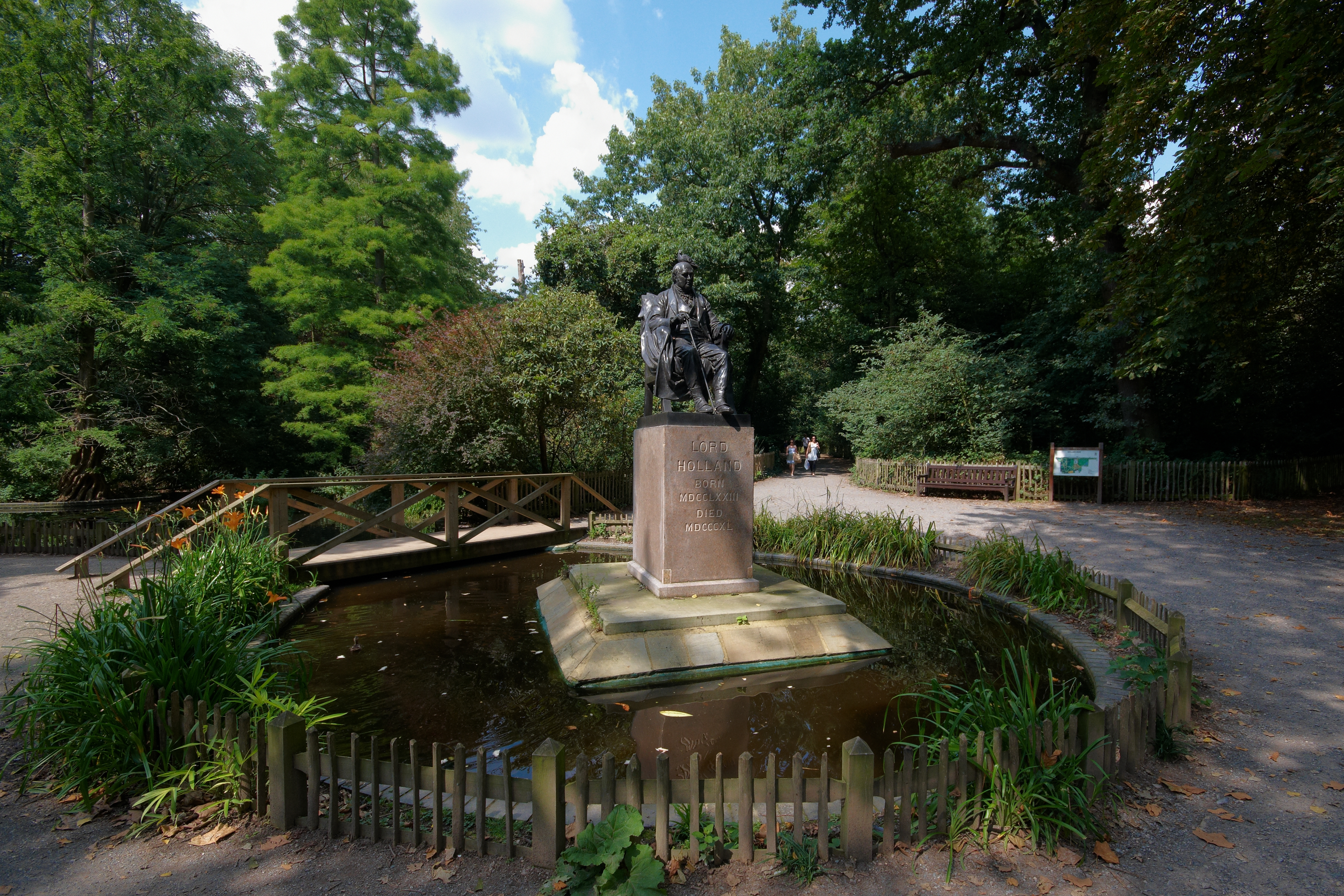 Lord Holland Monument in Holland Park, London